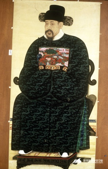 Yi Sanhae (1539~1609), a major Korean politician of the late sixteenth century, sitting on a chair. The portrait was drawn during his lifetime.